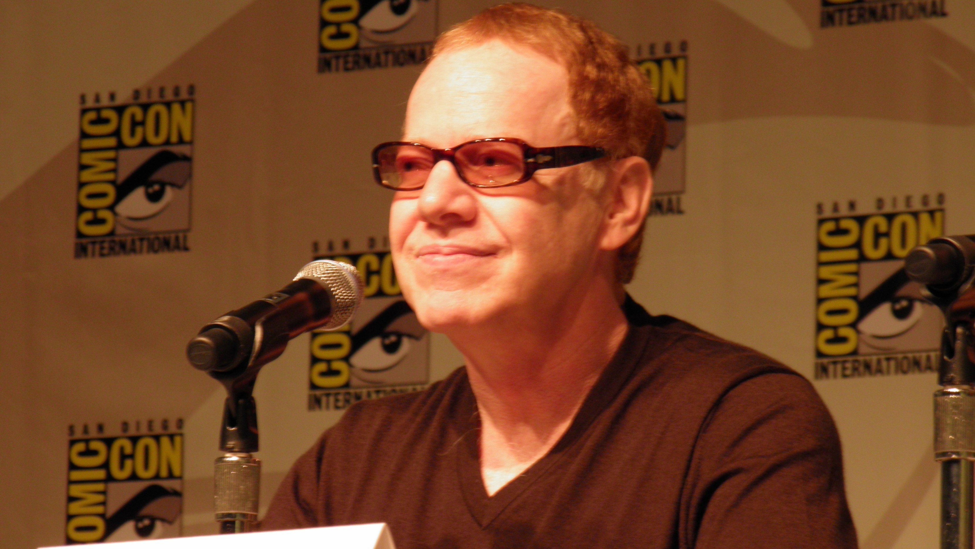 Danny Elfman at 2010 San Diego Comic-Con International.